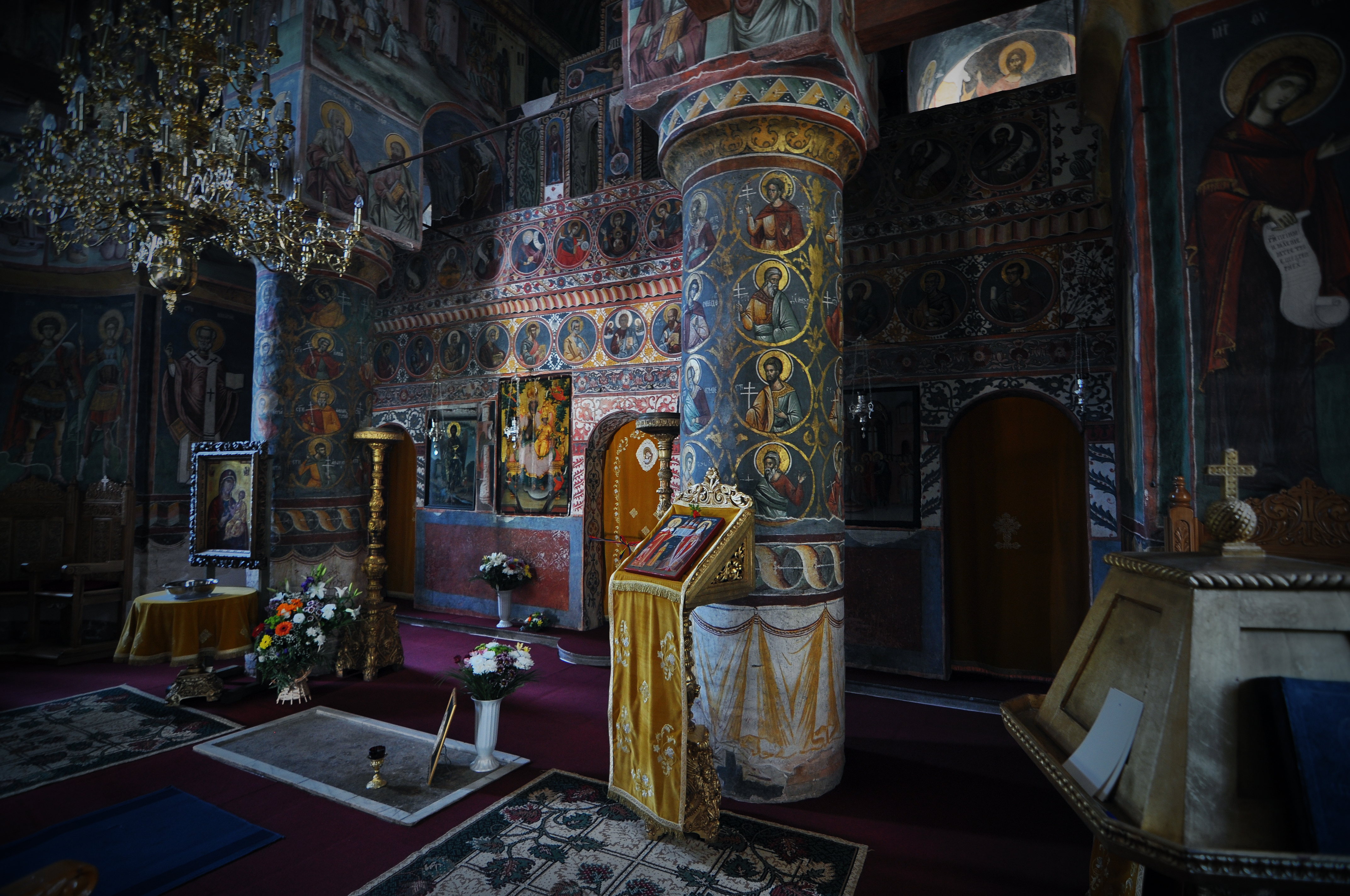 Snagov Monastery Biserica "Intrarea Maicii Domnului în Biserică" "The Presentation" Church [Entrance of the Theotokos into the Temple] construction from 1517, iconography from1563, other interventions 1815, 1904, 1941, 1953, 1966...